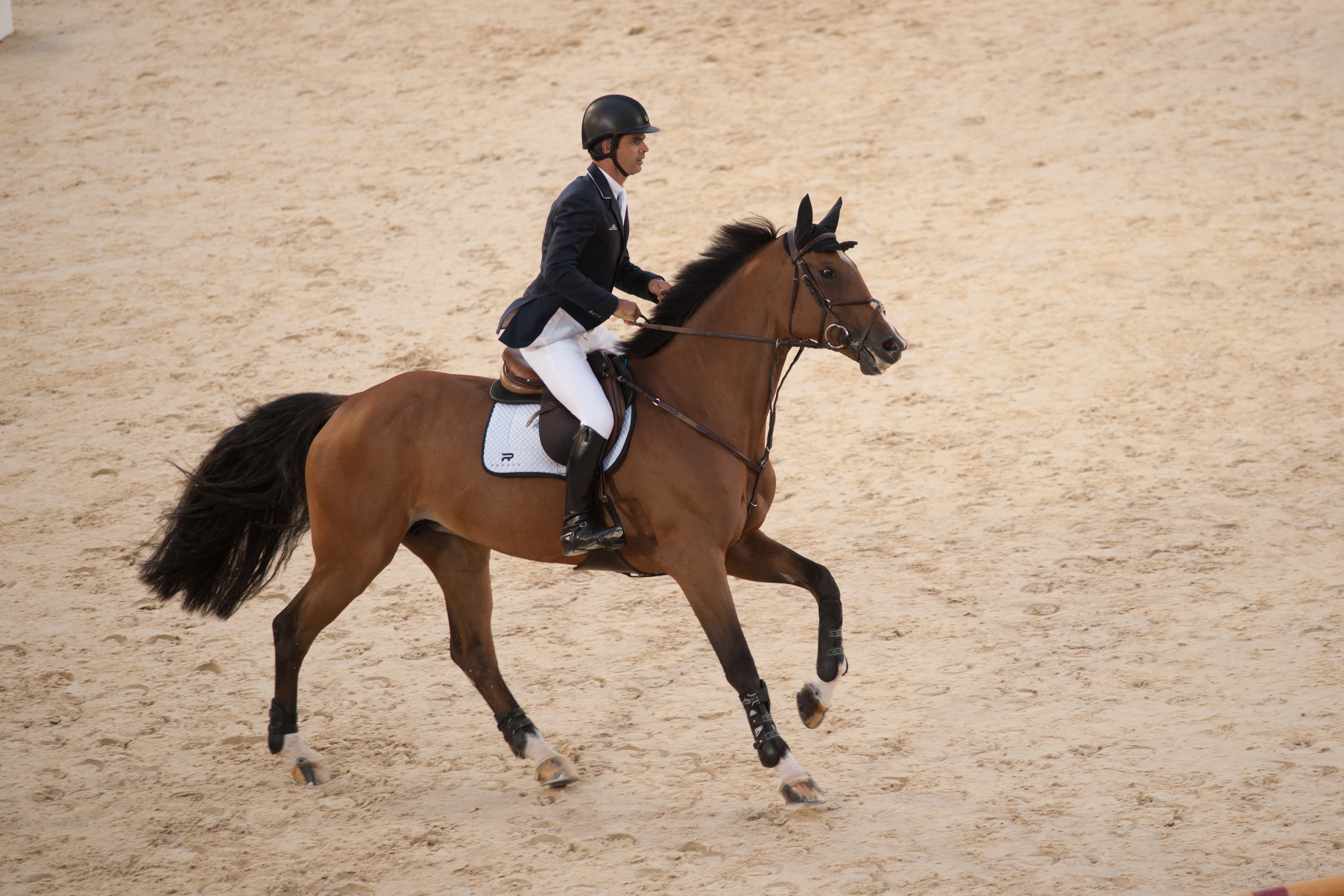 The making of this document was supported by Wikimedia CH. (Submit your project!) For all the files concerned, please see the category Supported by Wikimedia CH. 2013 Longines Global Champions Tour